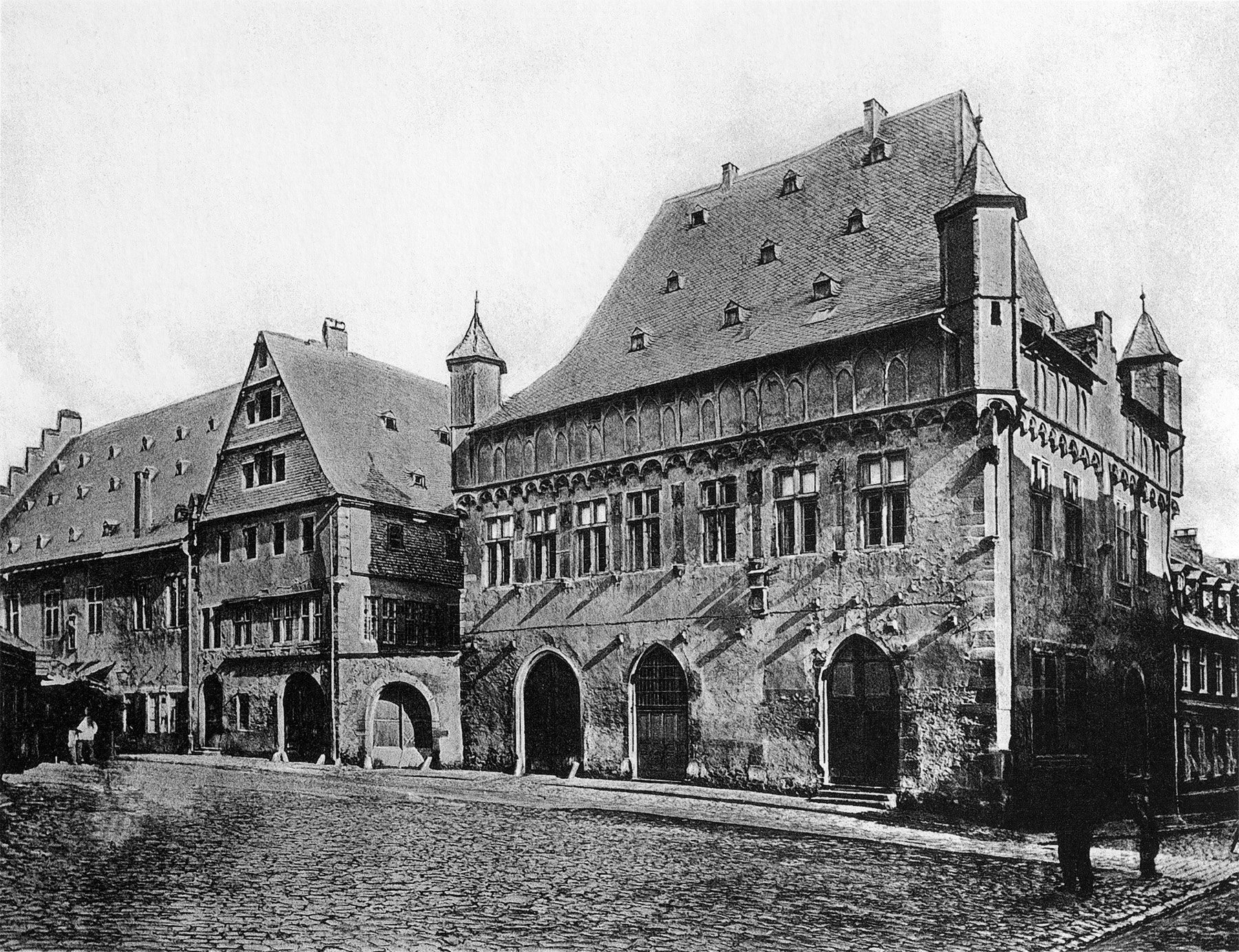 Frankfurt on the Main: Leinwandhaus (Linen House, to the right) and Stadtwaage (City Scales, to the left)